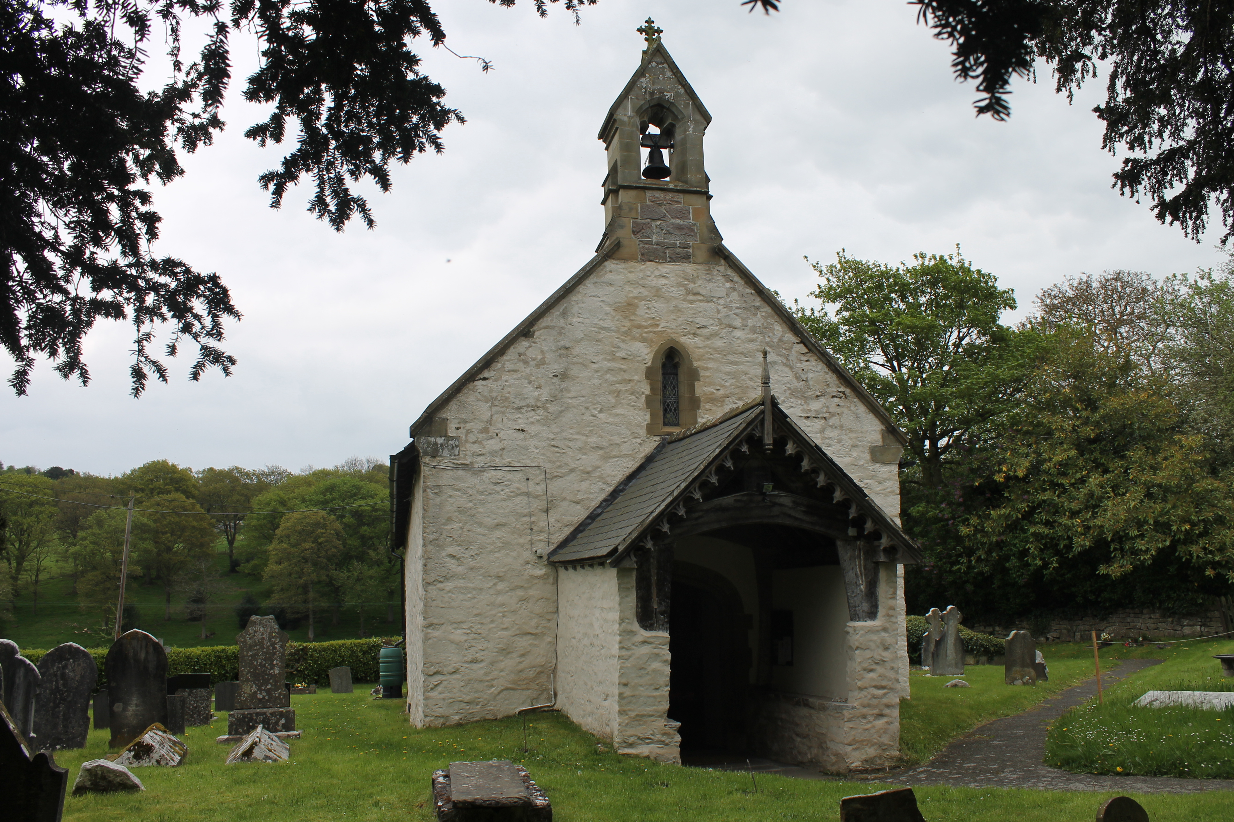 Church of St Michael and All Angels